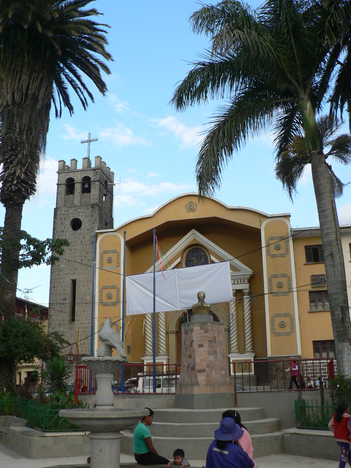 Catedral of Coroico, Bolivia.